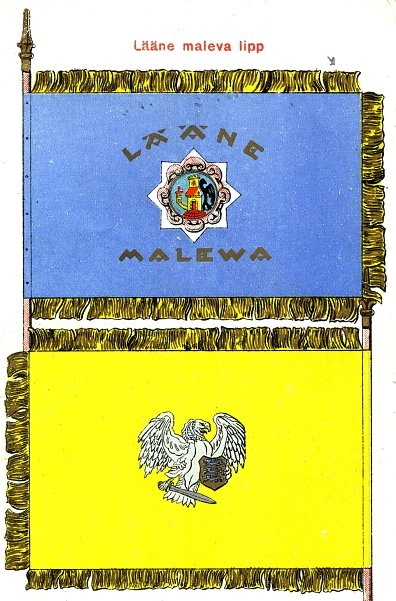 Flag of the Lääne Malev, a territorial unit of the Estonian Defence League